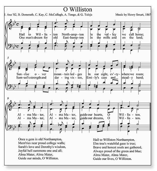 O Williston, the school’s new alma mater, that made its debut at Convocation on September 14, 2007 and will be performed at the school’s more formal occasions, such as Convocation and Baccalaureate.